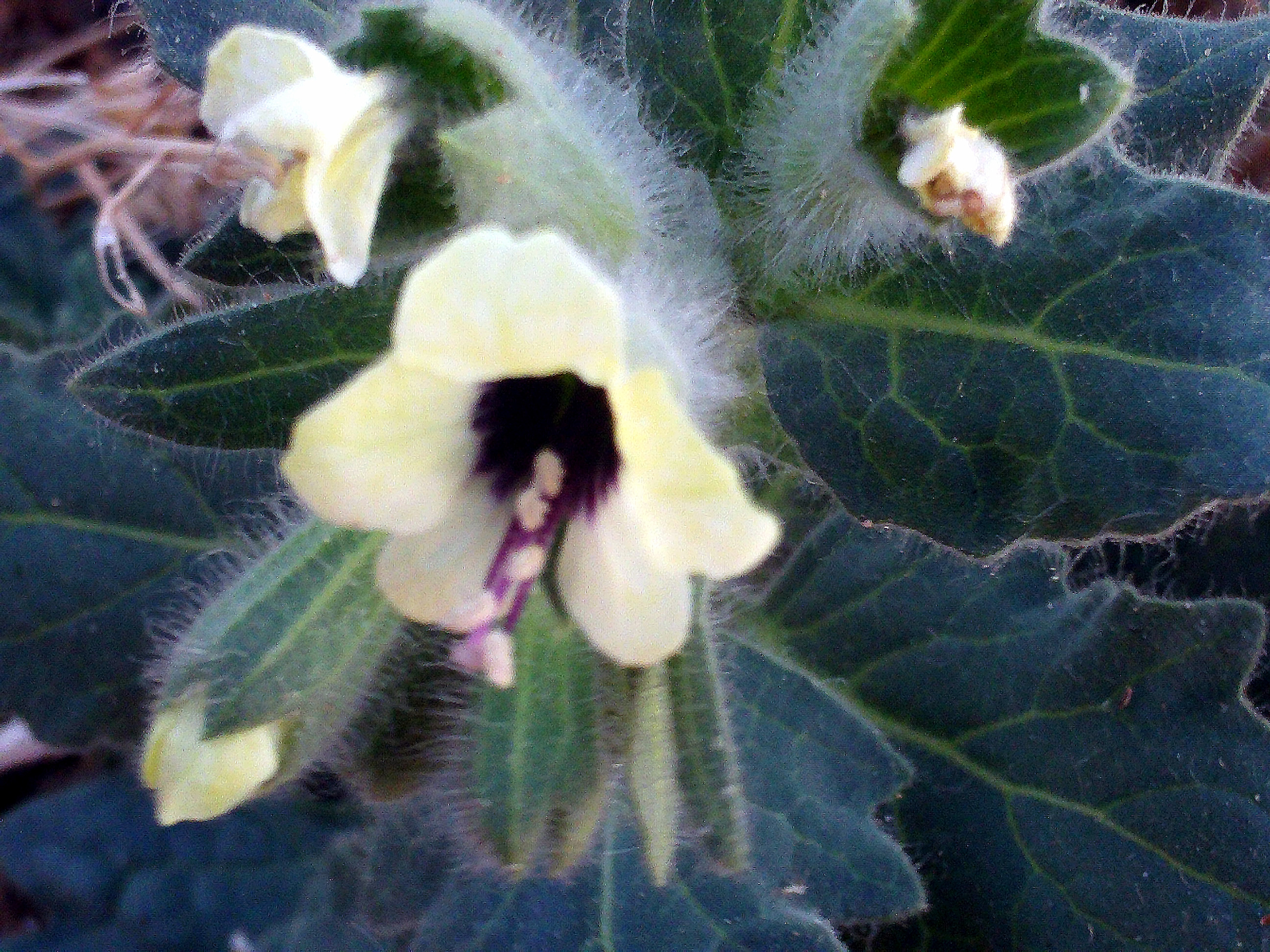 Hyoscyamus albus Flowers Closeup, Parque Natural de la Laguna de la Mata y Torrevieja, Torrevieja, Spain.